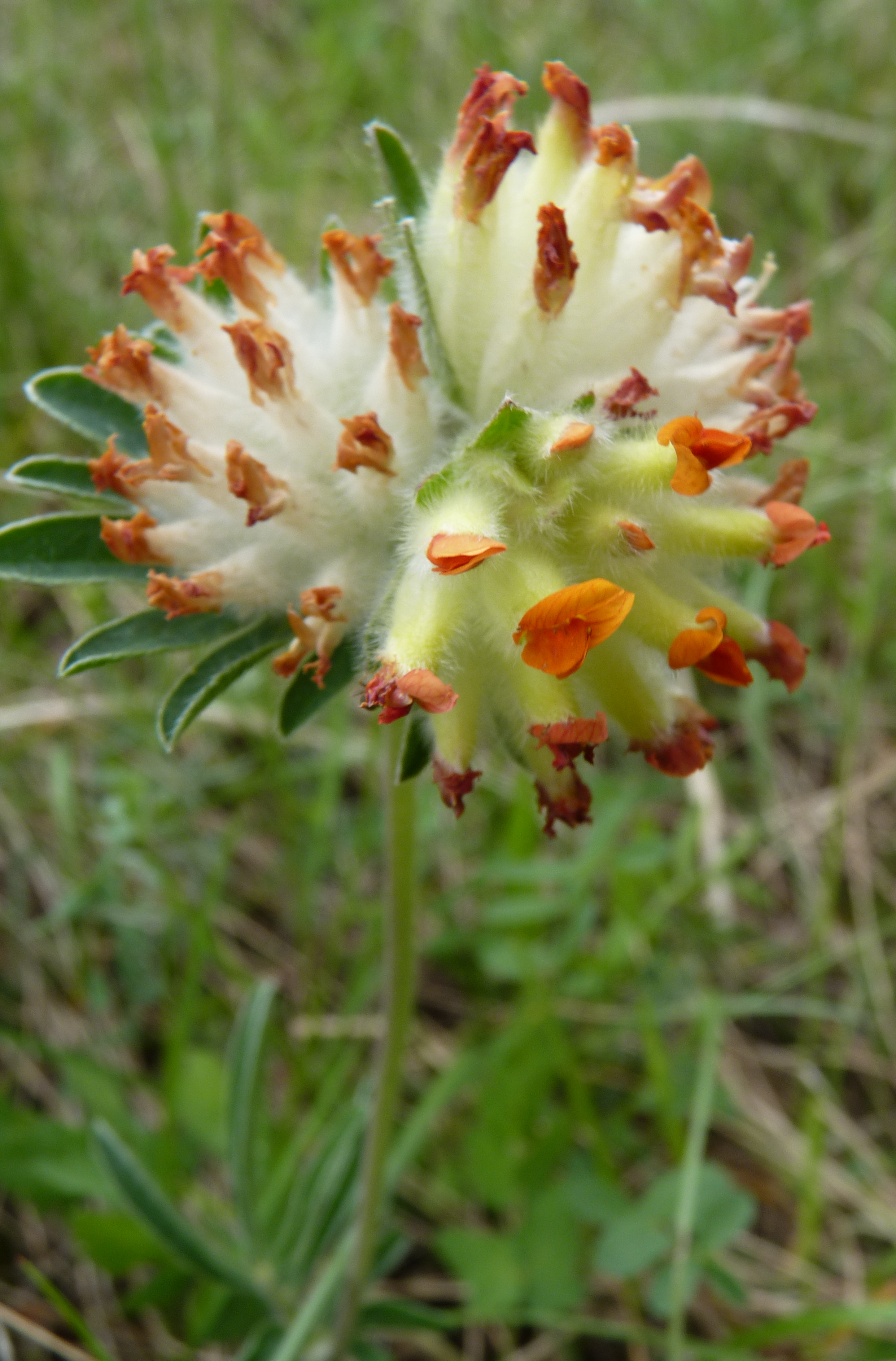 Tabulová, Růžový vrch a Kočičí kámen, national nature reserve. Palava, South Moravian Region, Czech Republic Project: Chráněná území